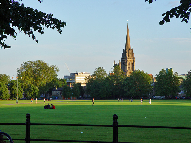 Parker's Piece, Cambridge Parker's Piece is this grass area, and is very popular with pedestrians and cyclists alike. The famous lamppost is on the left of the photograph, and the Catholic church in Lensfield road can also be seen.